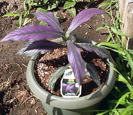 Picture of strobilanthes dyerianus (Persian Shield), photographed Jul 8 2004 by user Torindkflt.